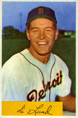 1954 Bowman baseball card of Don Lund of the Detroit Tigers #87. PD-US-not-renewed.